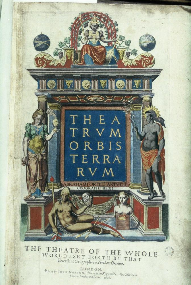 Ortelius title-page for Antwerp Latin edition of 1570, adapted for London 1606 English edition.